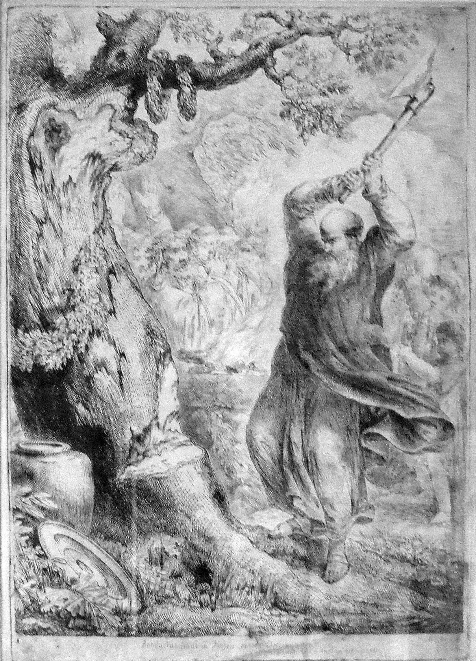 Boniface chops down a cult tree in Hessen, engraving by Bernhard Rode, 1781